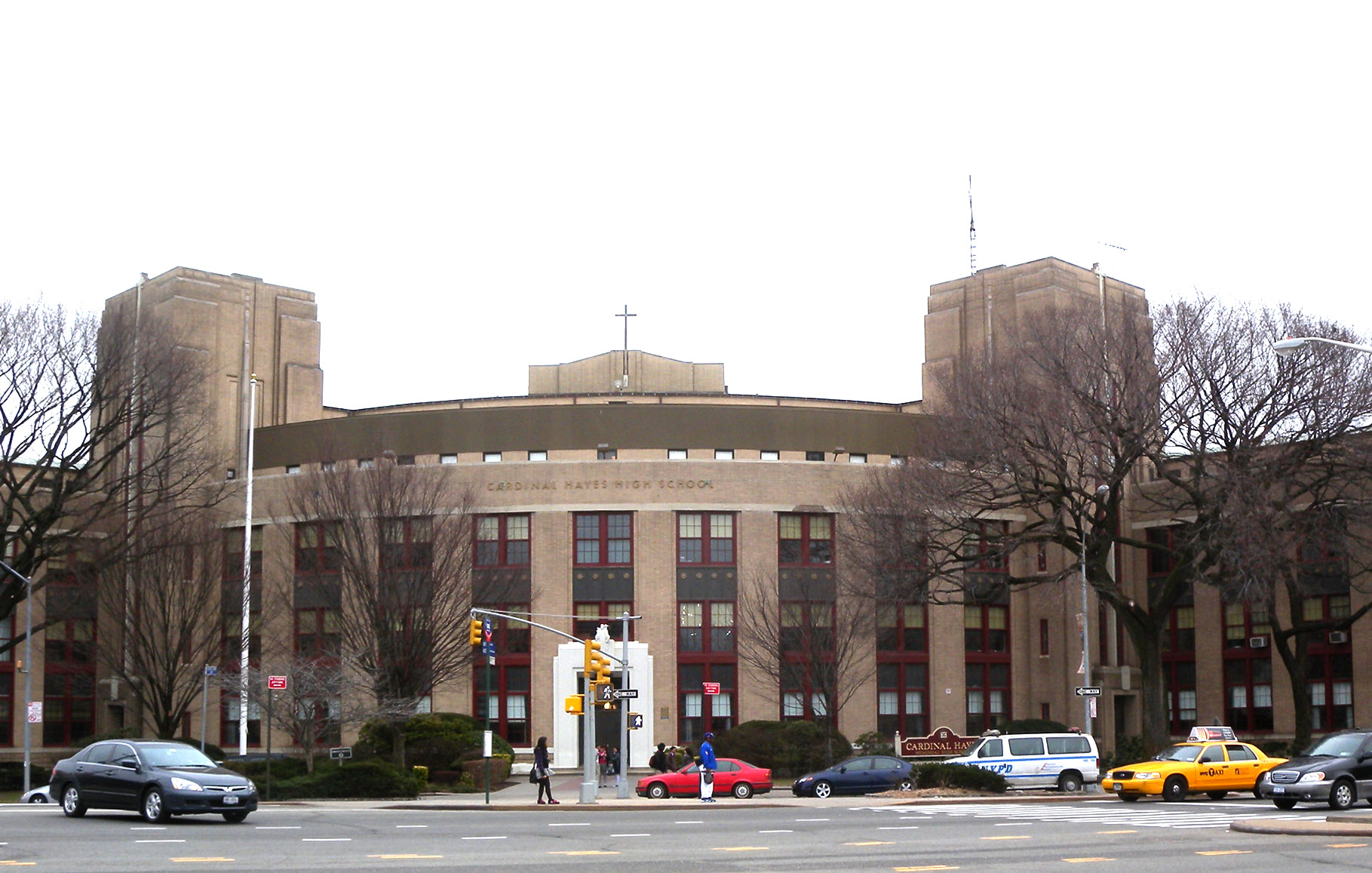 Looking southeast across Grand Concourse at Cardinal Hayes High School on a cloudy afternoon.